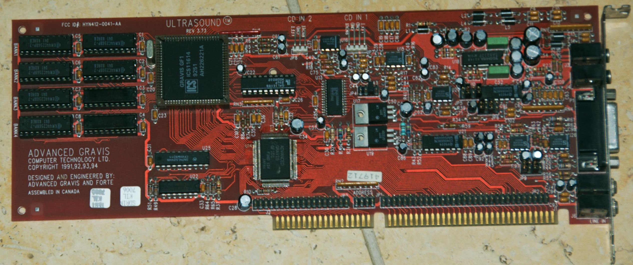 A closeup of the famous Gravis Ultrasound sound card for PC